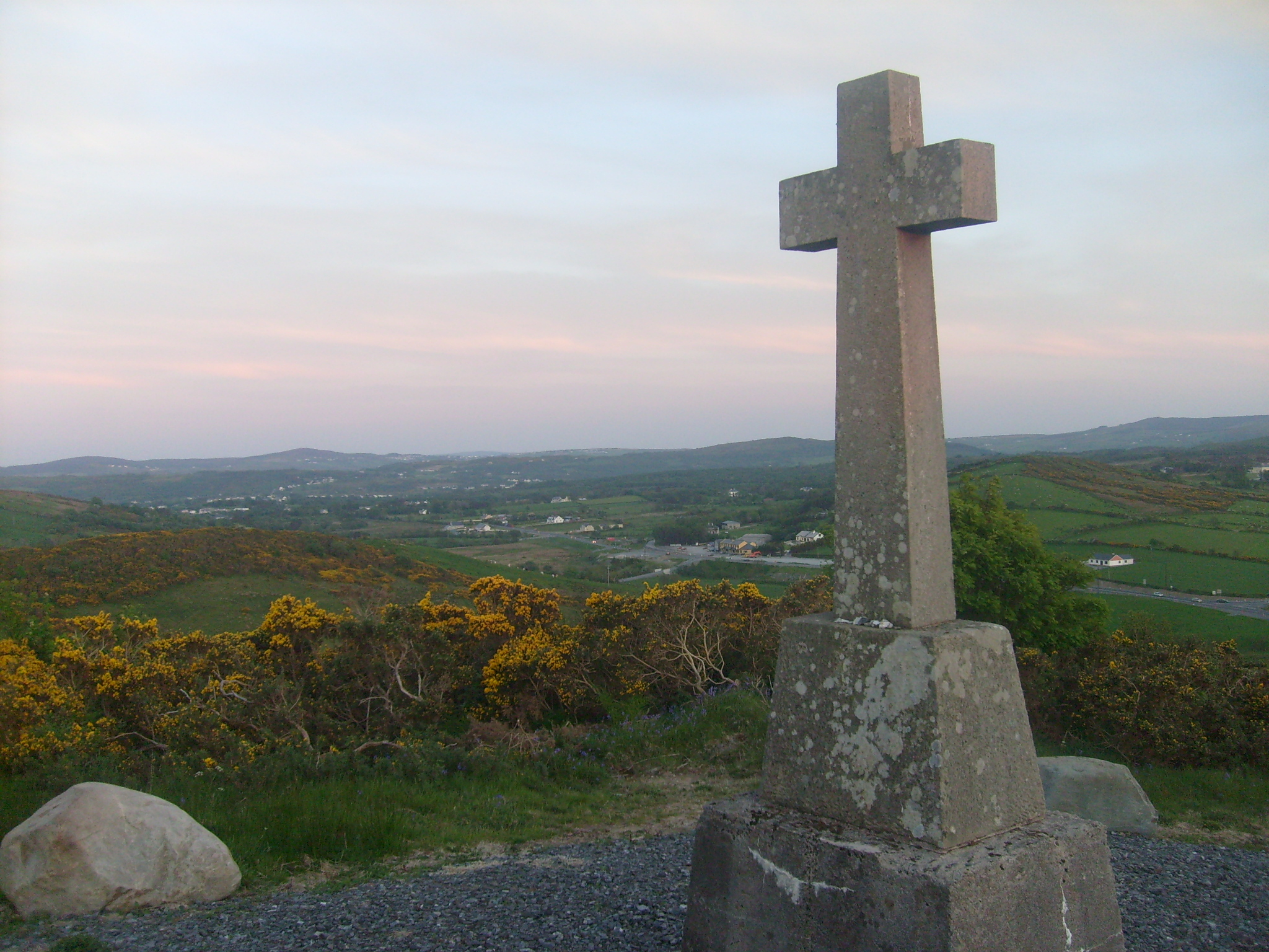 A cross at An Tearmann (Termon), County Donegal, Ireland